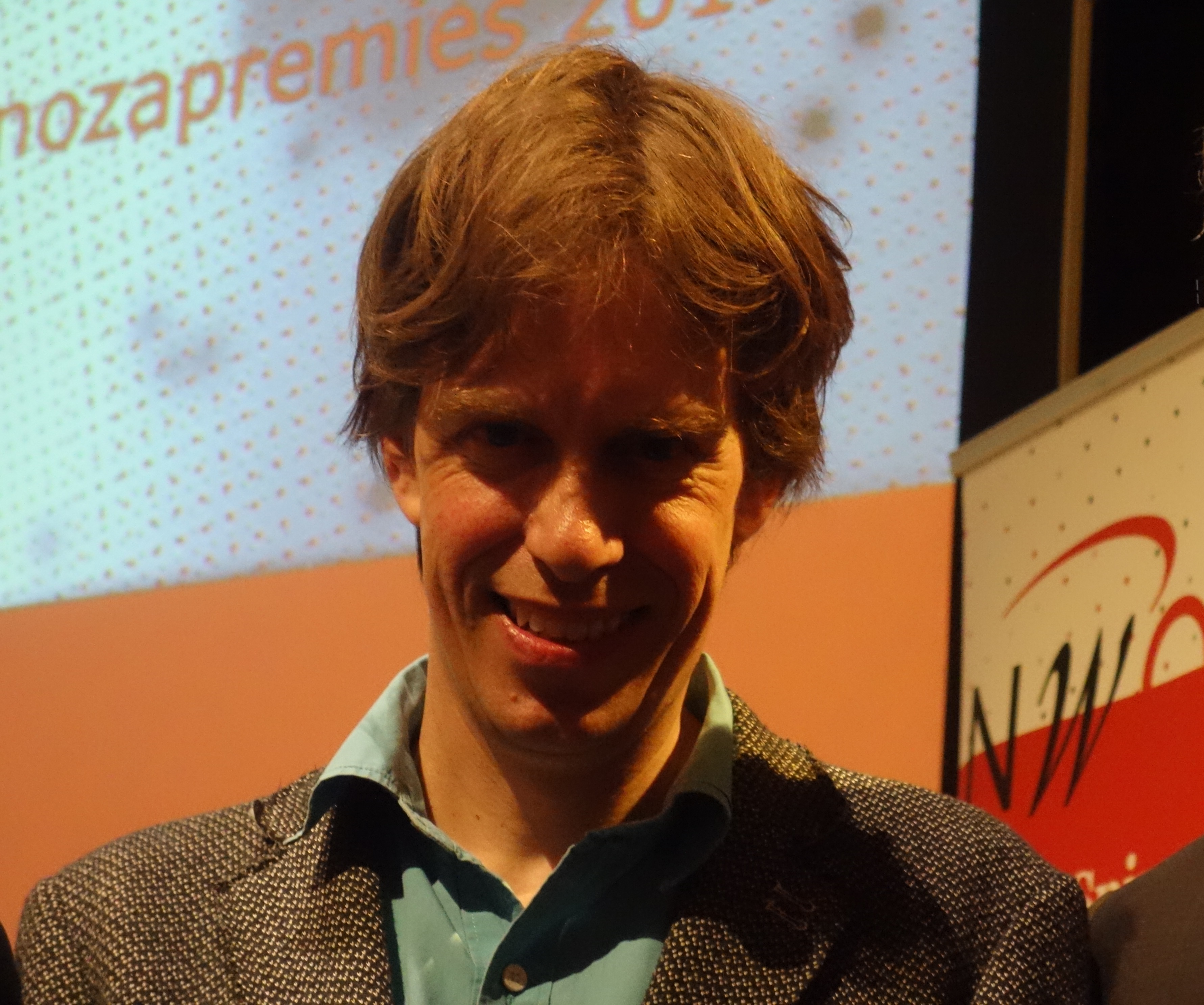 Dutch physicist Alexander van Oudenaarden (Amsterdam, June 2017)